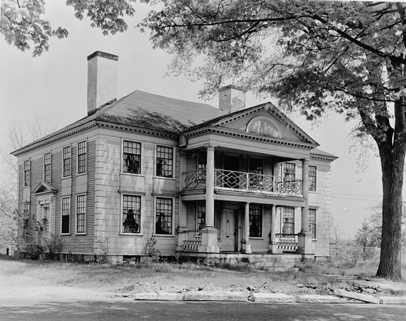 1790 House, Woburn. Historic American Buildings Survey—HABS image (1936). The material is in the public domain because it was produced by the United States Government. This is a cropped version of the photograph from the Library of Congress online database, with citation below. 1. Historic American Buildings Survey Arthur C. Haskell, Photographer May 10, 1936 (a) EXT.- FRONT & SIDE, LOOKING EAST HABS, MASS,9-WOBN,3-1 TITLE: Bartlett-Wheeler House, 827 Main Street, North Woburn, Middlesex County, MA CALL NUMBER: HABS, MASS,9-WOBN,3- REPRODUCTION NUMBER: [See Call Number] MEDIUM: Measured Drawing(s): 16 Photo(s): 15 Data Page(s): 2 plus cover page DATE: Documentation compiled after 1933. NOTE: Survey number HABS MA-276 SUBJECTS: MASSACHUSETTS--Middlesex County--North Woburn House OTHER TITLE: Joseph Bartlett House COLLECTION: Historic American Buildings Survey (Library of Congress) REPOSITORY: Library of Congress, Prints and Photograph Division, Washington, D.C. 20540 USA CARD #: MA0804